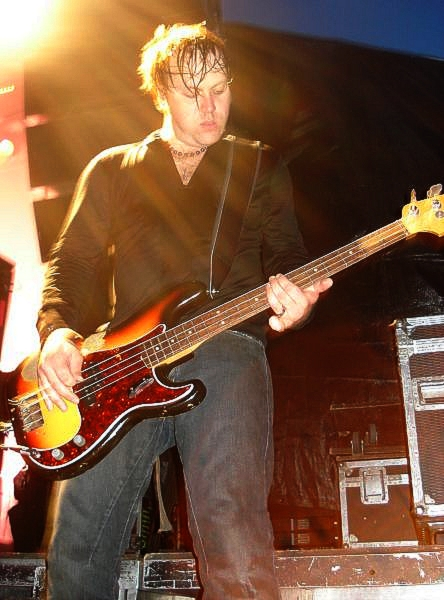 Pic taken by Agnieszka Szwarc